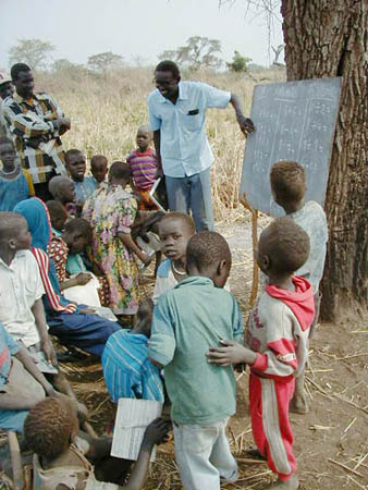 Outdoor classroom in North Bahr al Ghazal, Southern Sudan in 2002 (present day South Sudan). Original caption states: Village school under the trees in Northern Bahr el Ghazal